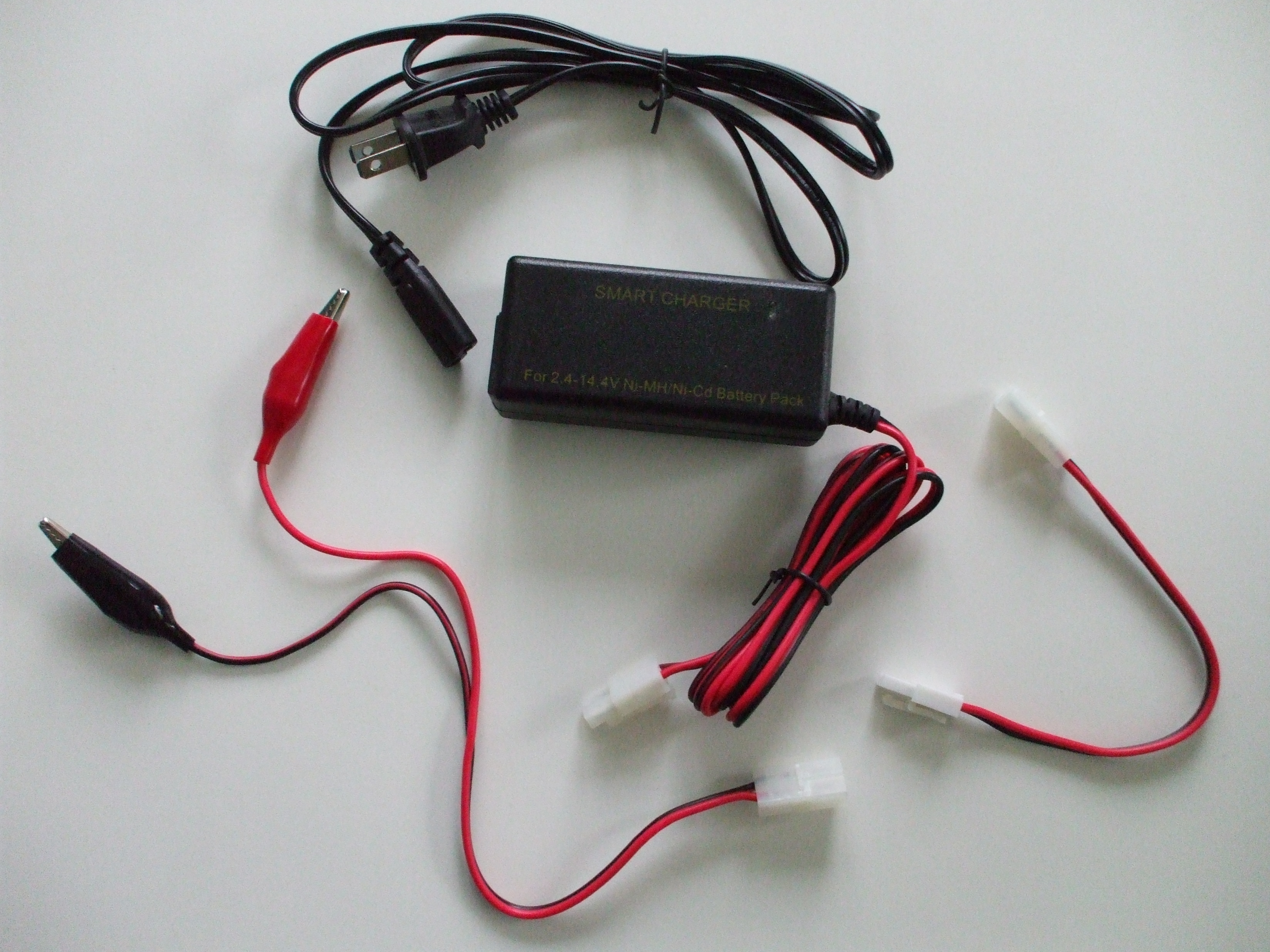 Pulse charger (Smart charger) Chargeur de batterie à impulsion